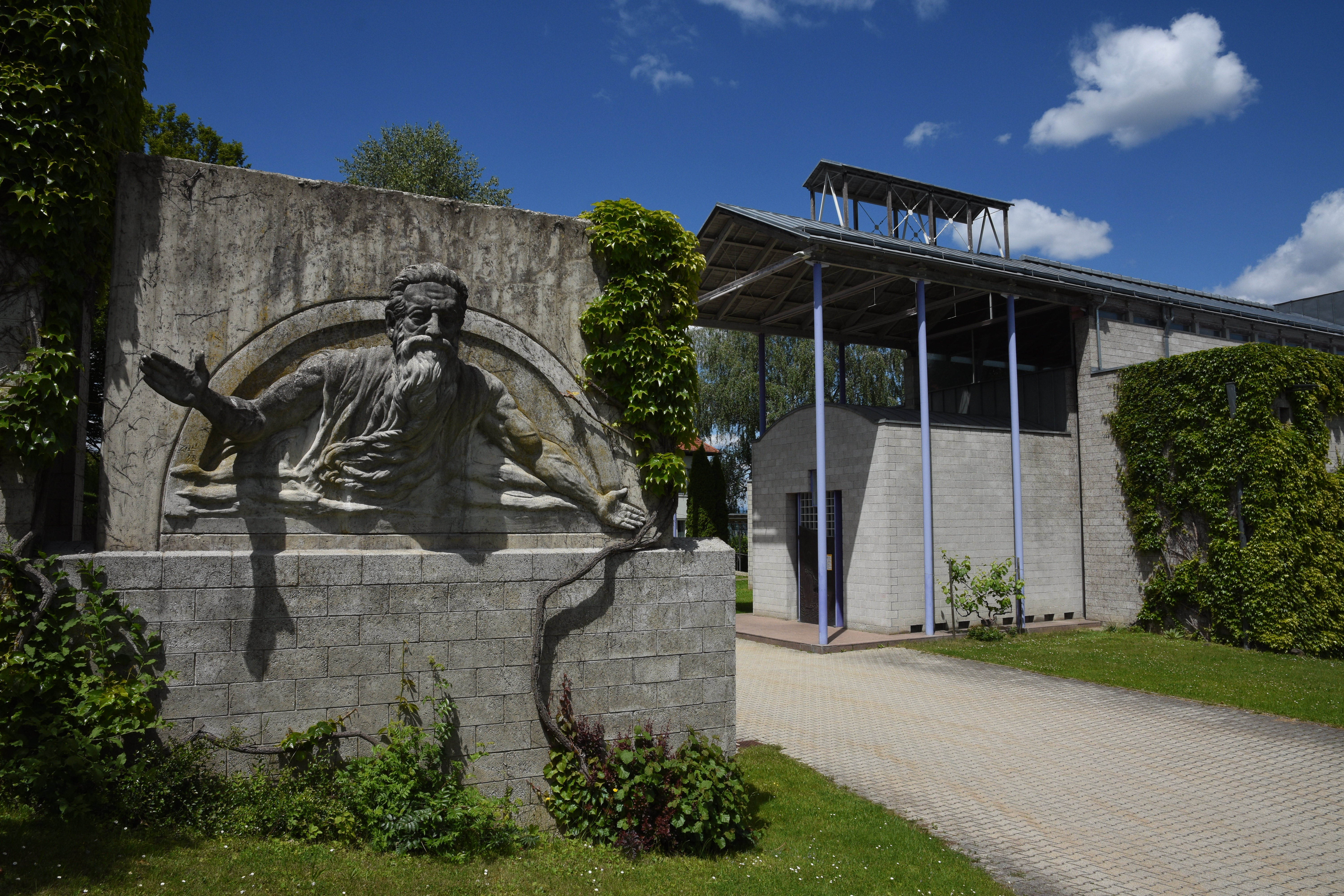 Church Lannach